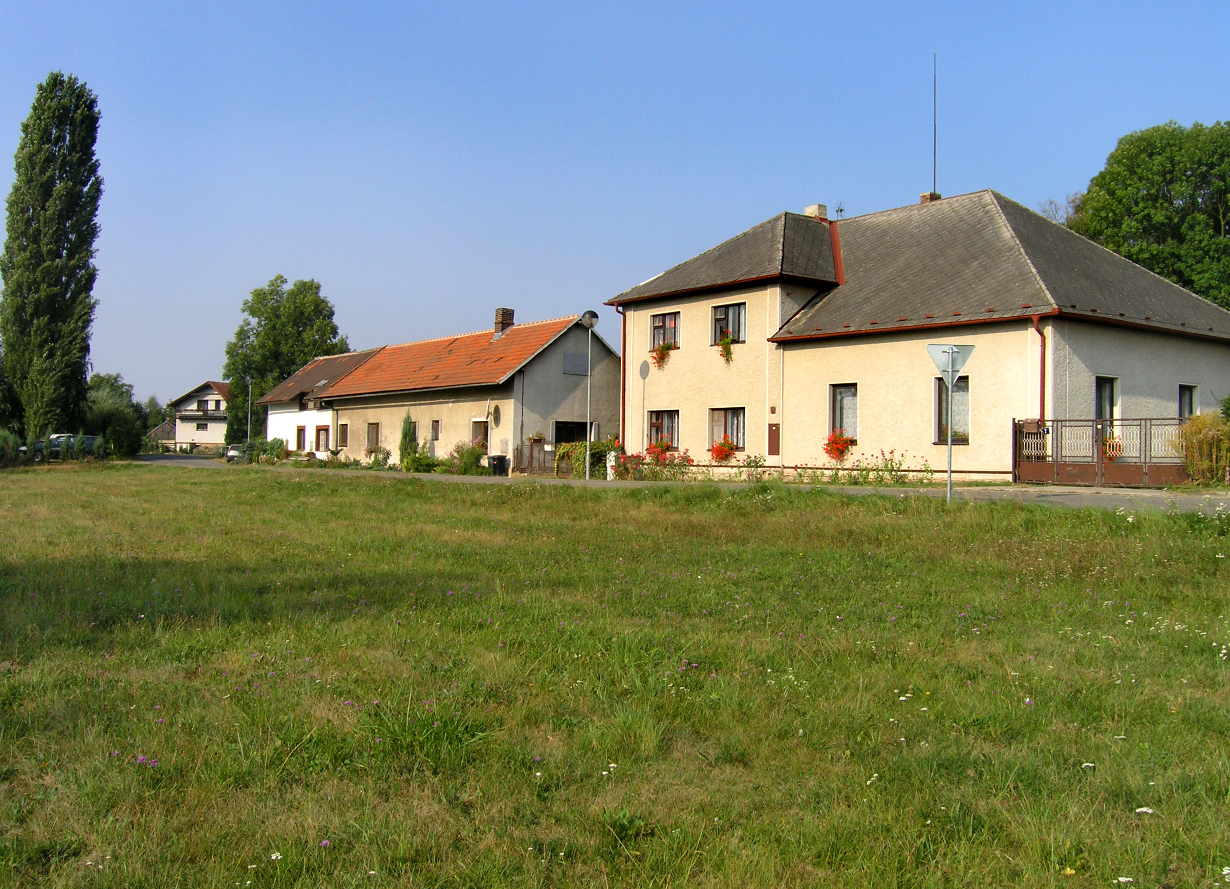 Houses by Radostovický creek in Radíkovice, Czech Republic